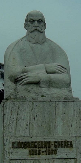 Constantin Dobrogeanu Gherea (Statue) in Ploiesti (Rumänien)